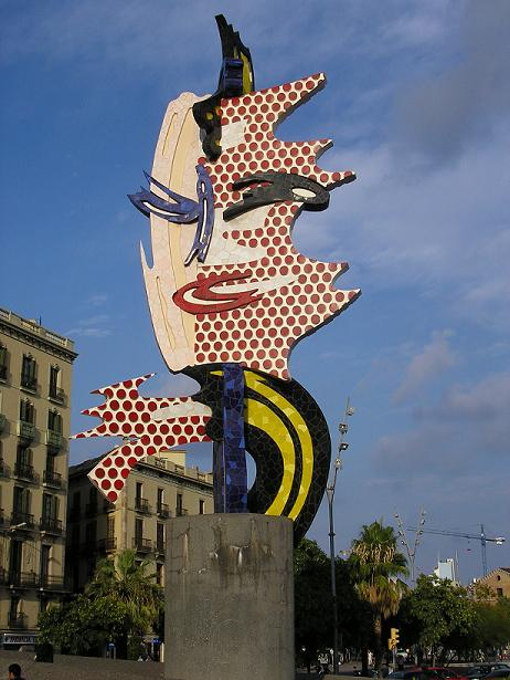 Cap de Barcelona by Roy Lichtenstein, Barcelona, Catalonia, Spain.